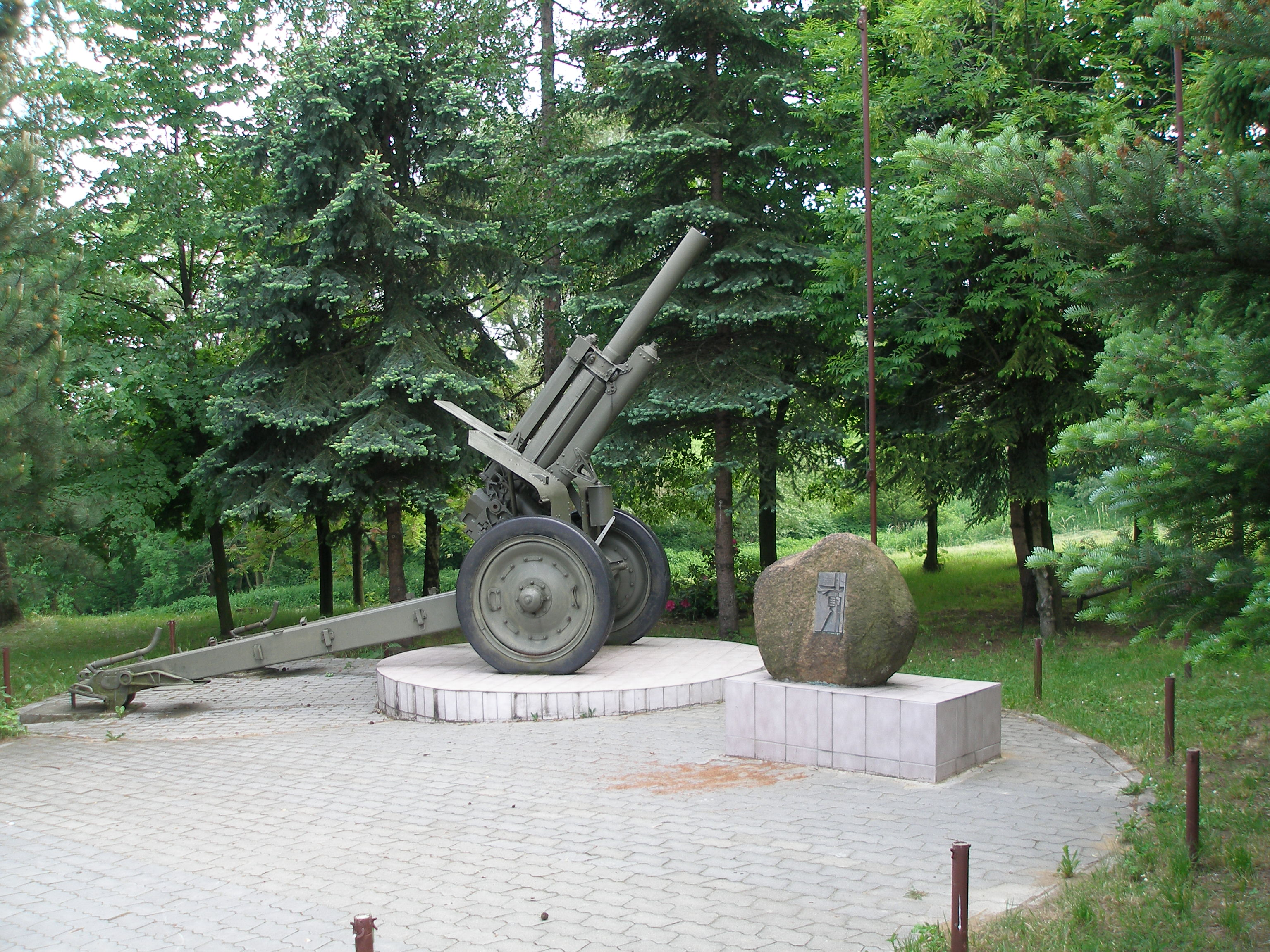 Čavisov - the memorial of the liberation